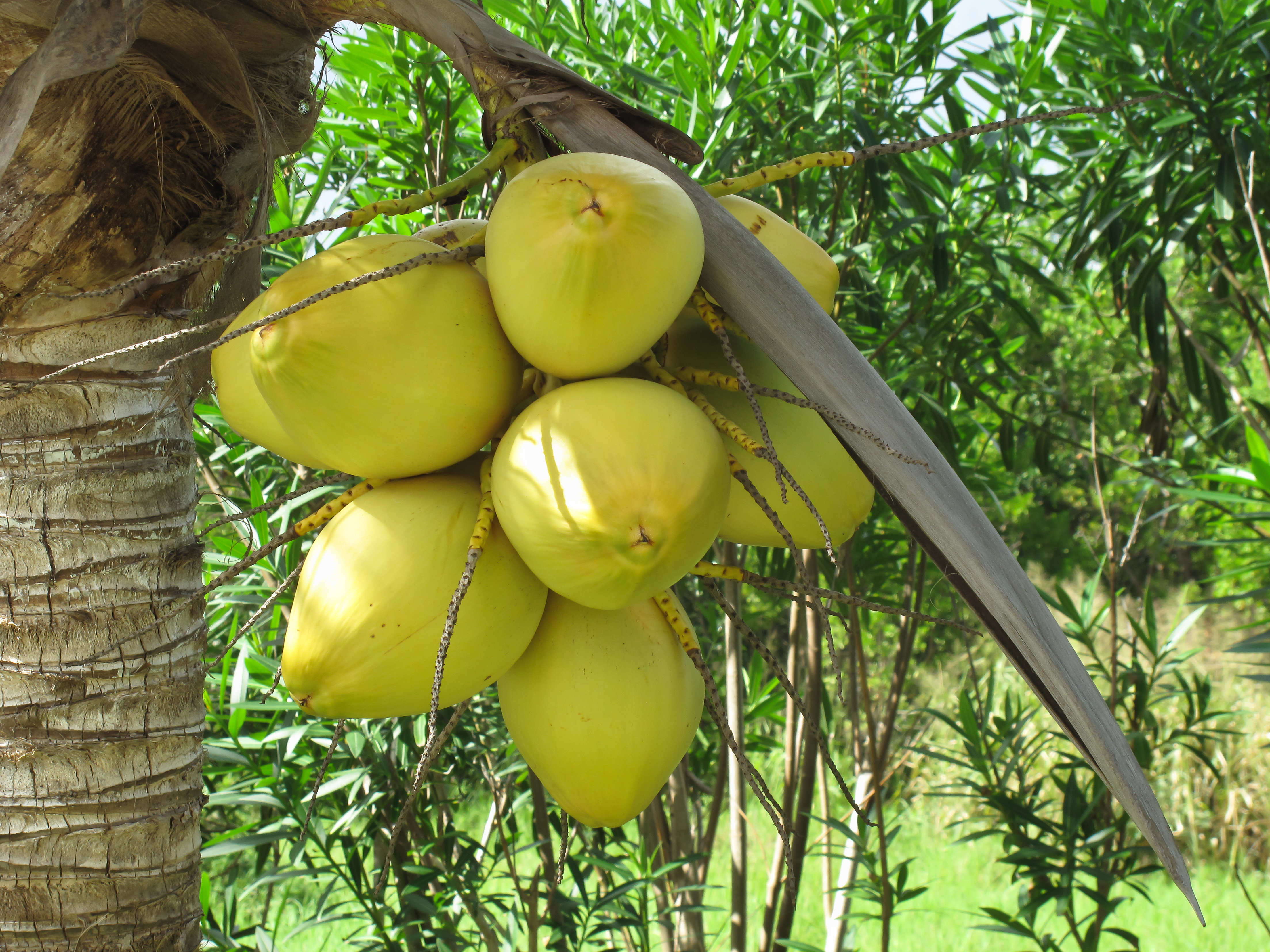 Coconuts. Hotel Bay Prince. Federal highway 307 Cancún-Chetumal, Mexico